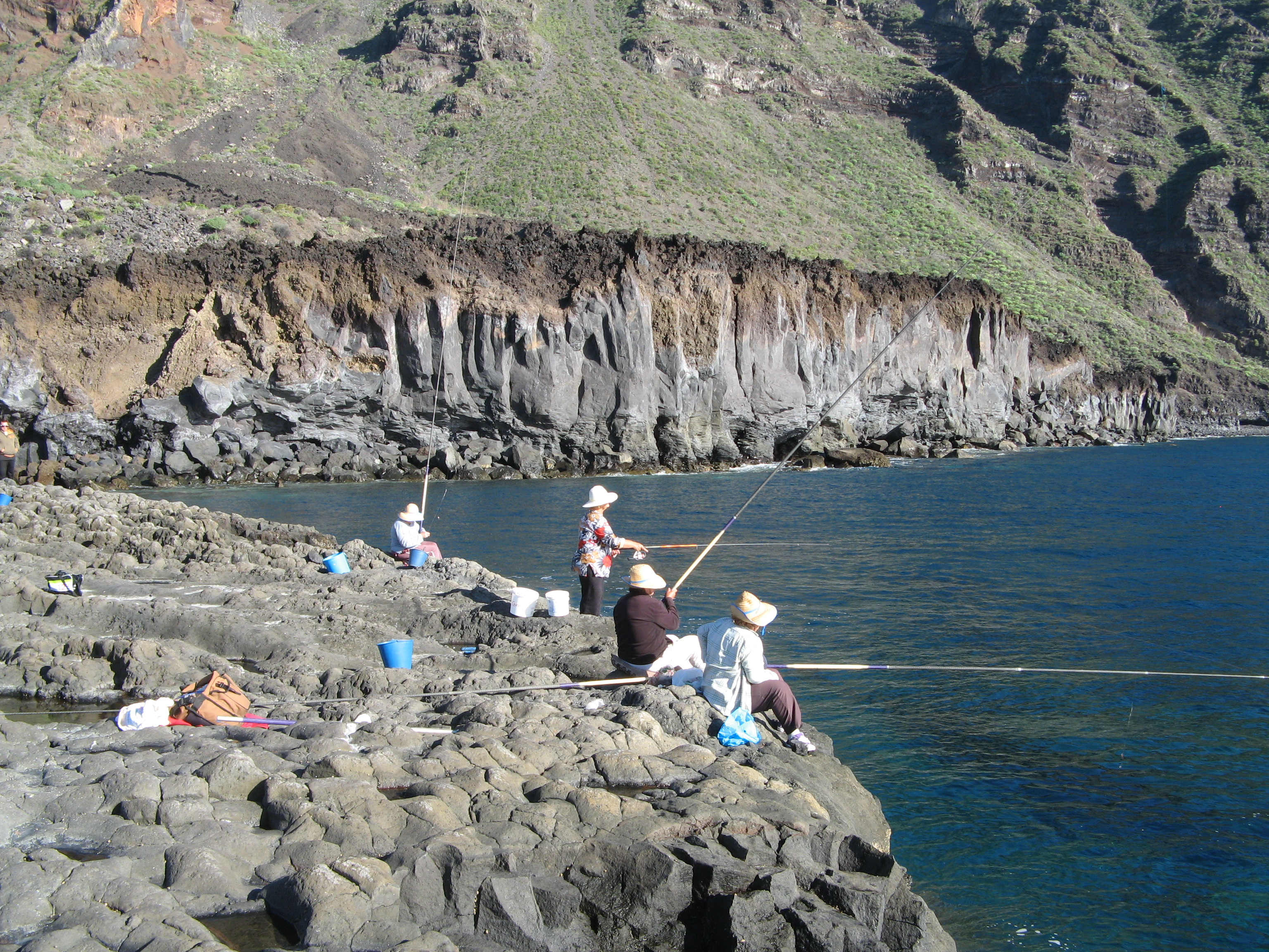 El Remo, Puerto Naos, La Palma